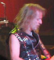 Crop picture of K K Downing